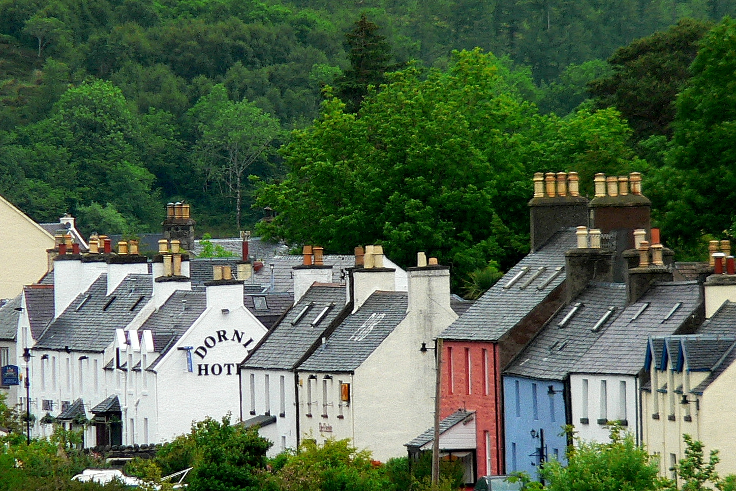 Dornie, Scotland